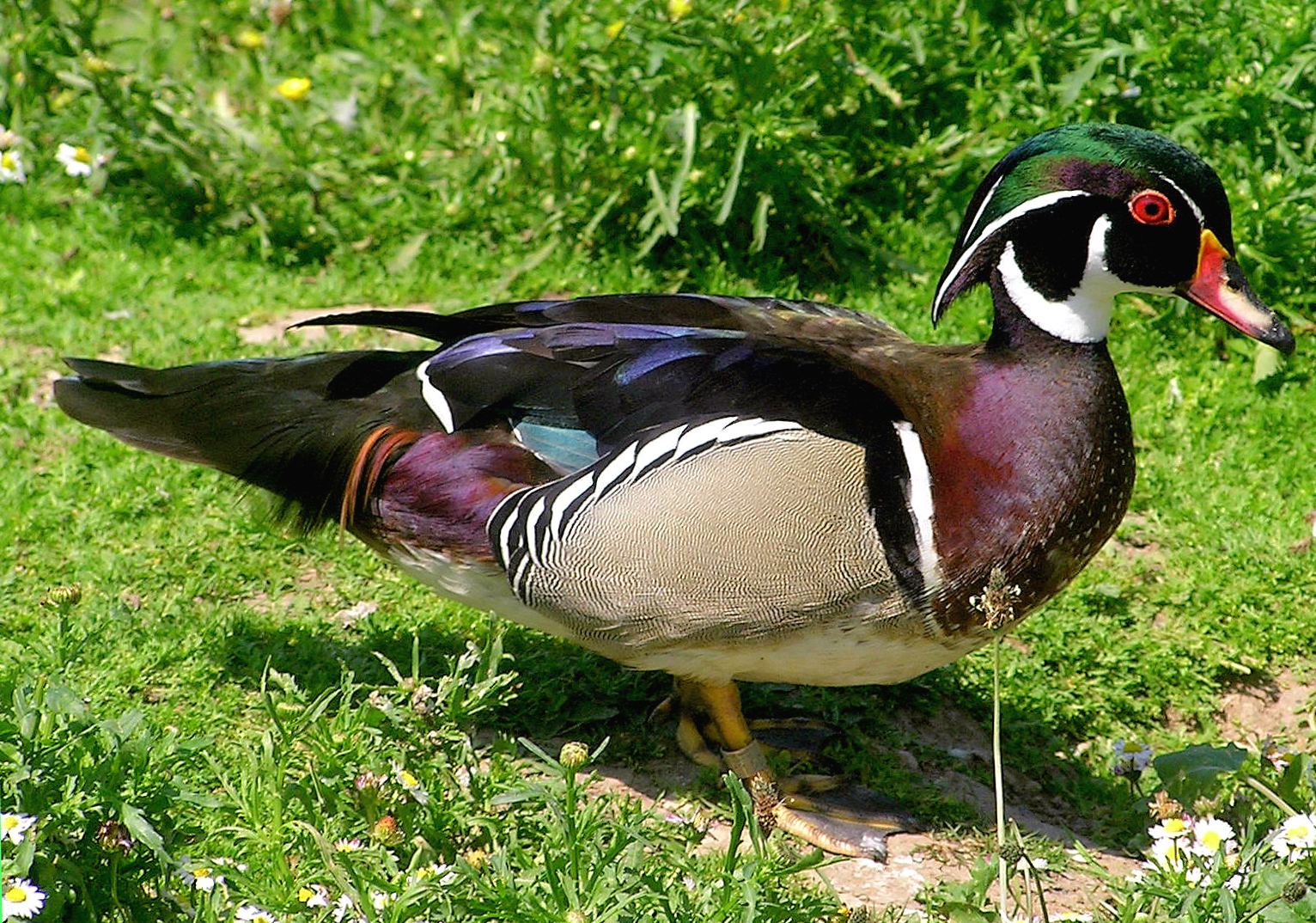 Wood Duck or Carolina Duck Aix Sponsa.